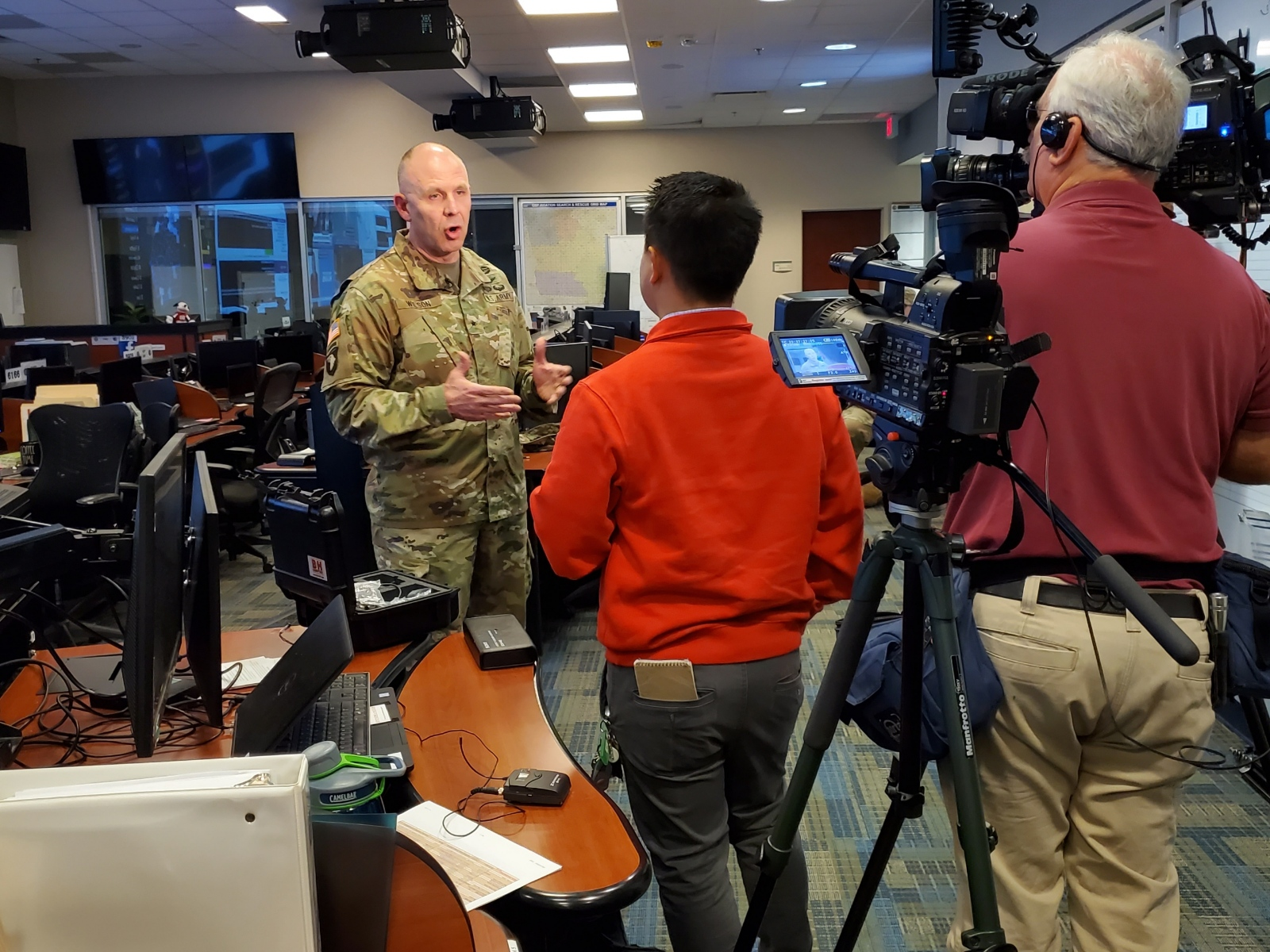 Brigadier General Dwayne Wilson, director of joint staff, Georgia National Guard, spoke with reporters from 11 Alive about what the Georgia Guard's role is in response to COVID - 19 during an interview in the joint operations center at the Clay National Guard Center on March 17, 2020. General Wilson also addressed what Soldiers are already doing to support GEMA and local law enforcement, as well as how Soldiers are staying safe at home and on the job. (U.S. Army photo by Staff Sgt. Amy King)